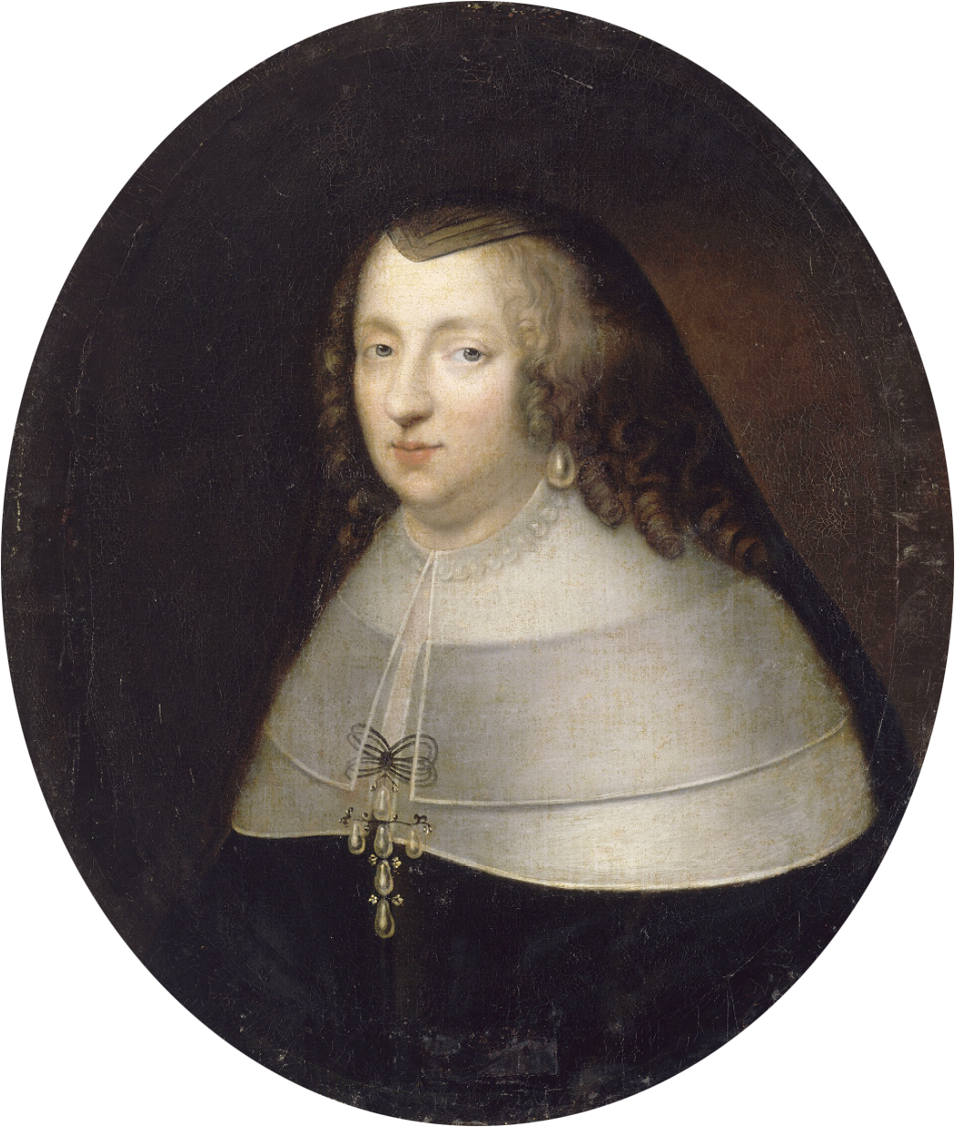 Anna of Austria as widow